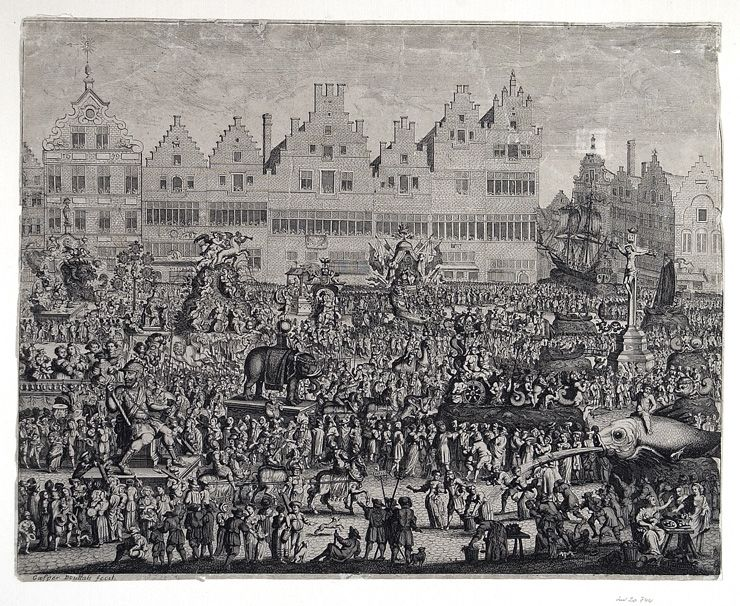 The Ommegang on the Meir, Antwerp. Print by Gaspar Bouttats, 1685, published by Hieronymus Verdussen III